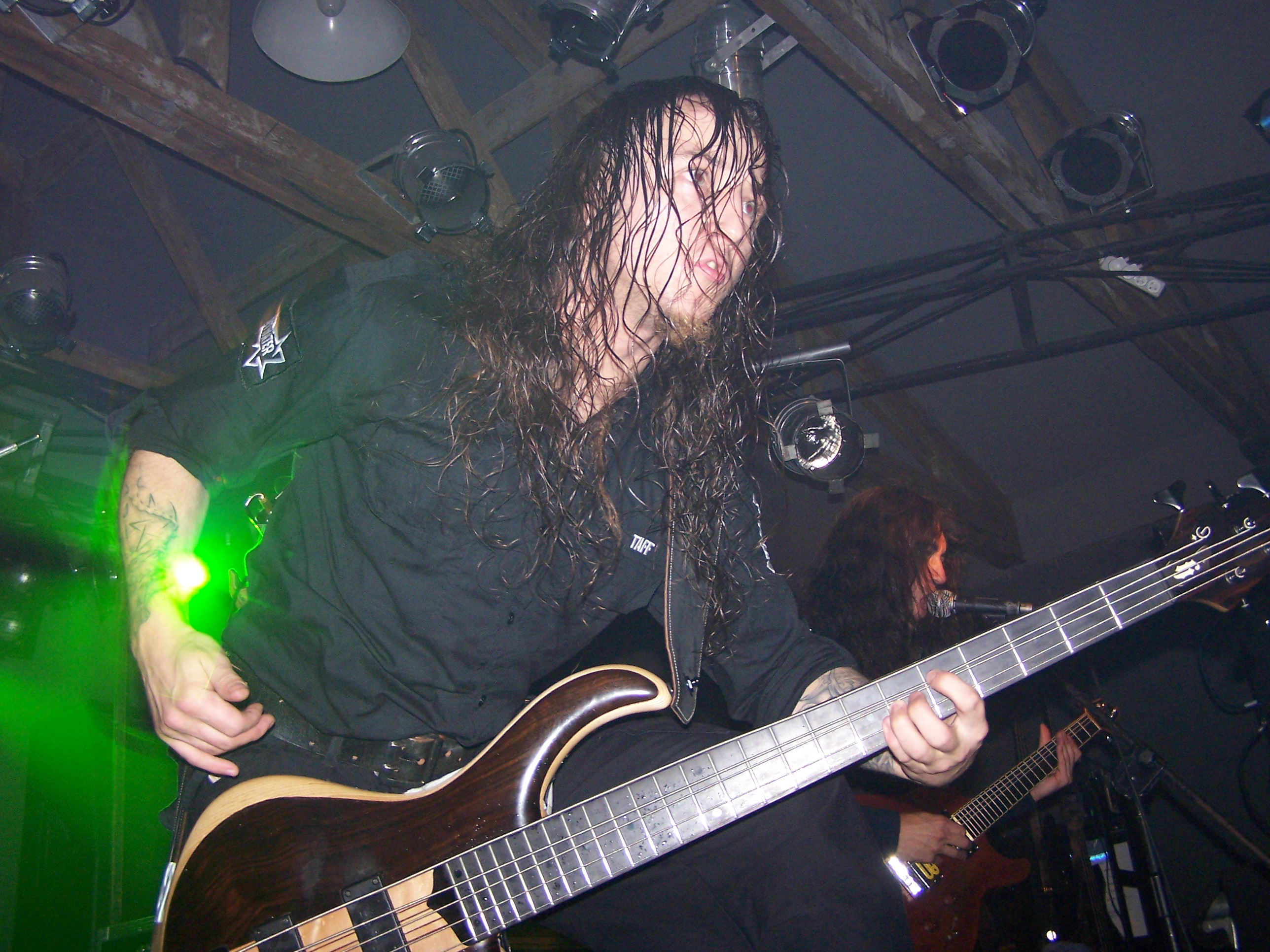 Filip Hałucha from Rootwater during Polish Apostasy Tour 2007 in Mega Club in Katowice.